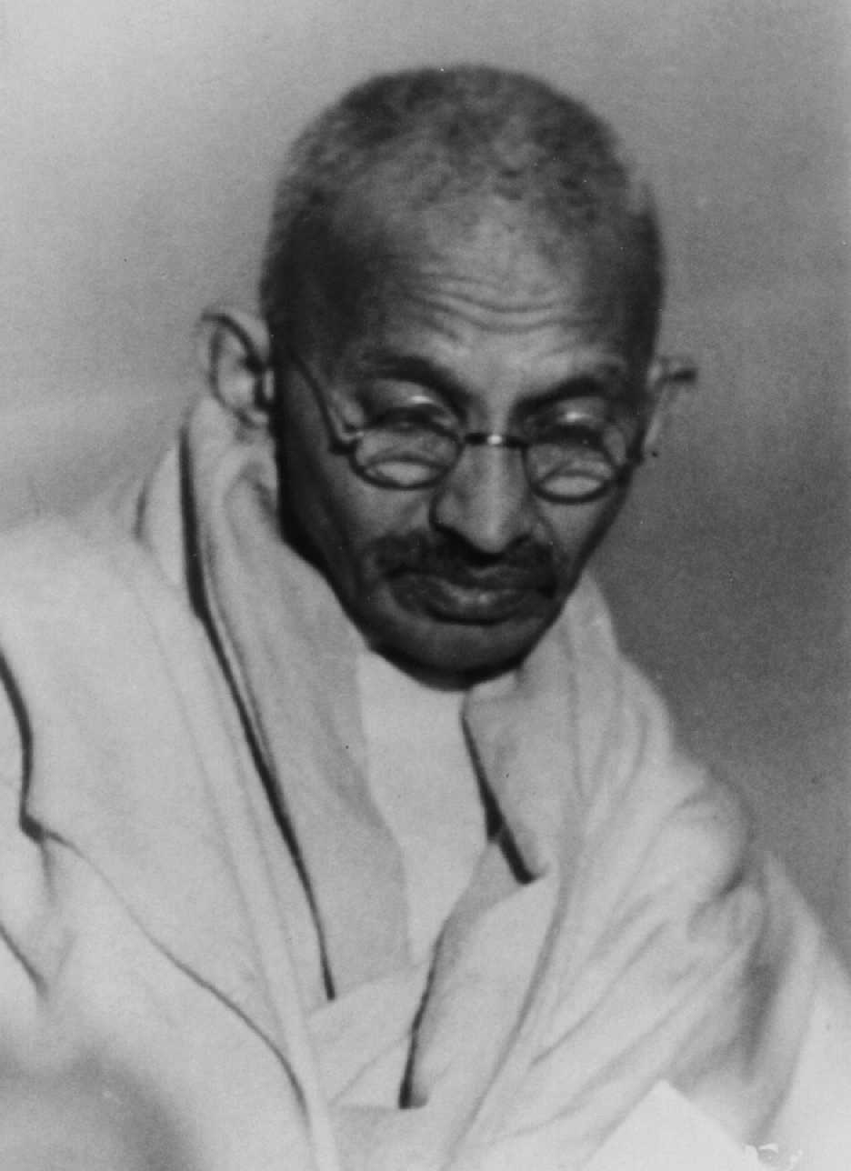 Mohandas K. Gandhi, in the 1920s.